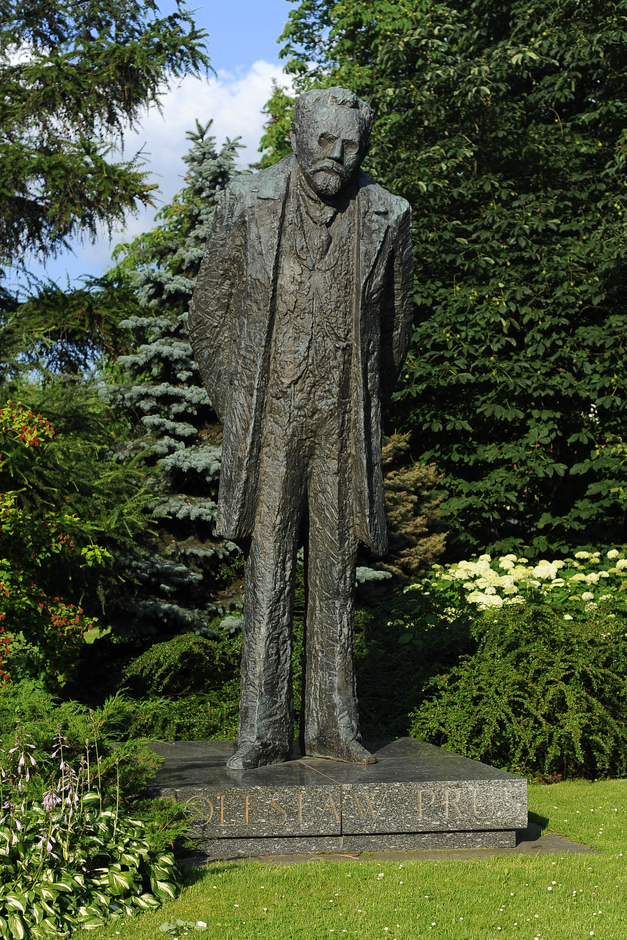 Statue of Boleslaw Prus by Anna Kamieńska-Łapińska on Warsaw's Krakowskie Przedmiescie